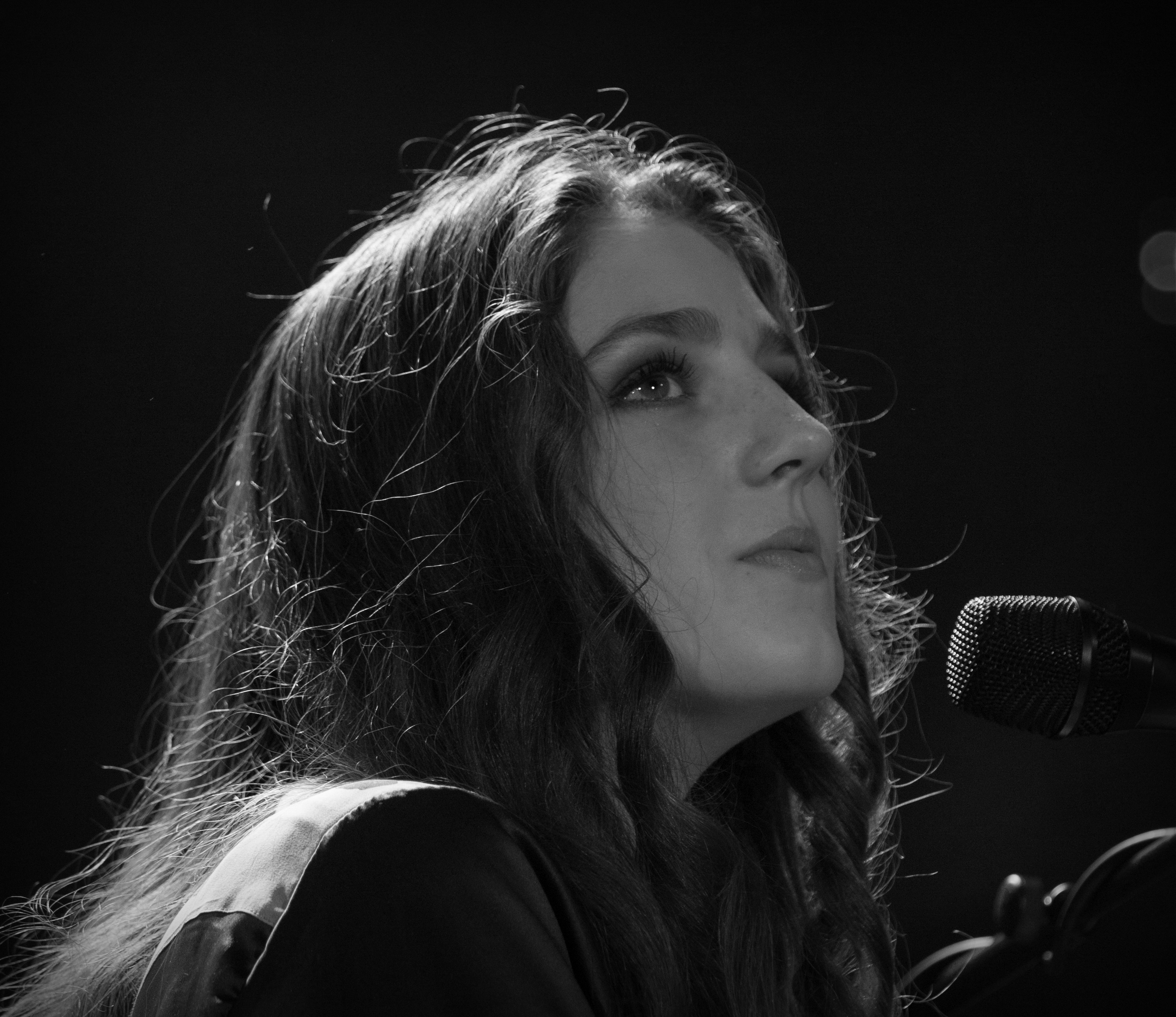 Birdy at the SWR3 New Pop Festival in Baden-Baden 2013 Festivalsommer This photo was created with the support of donations to Wikimedia Deutschland in the context of the CPB project "Festival Summer".